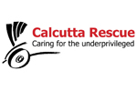 logo ngo